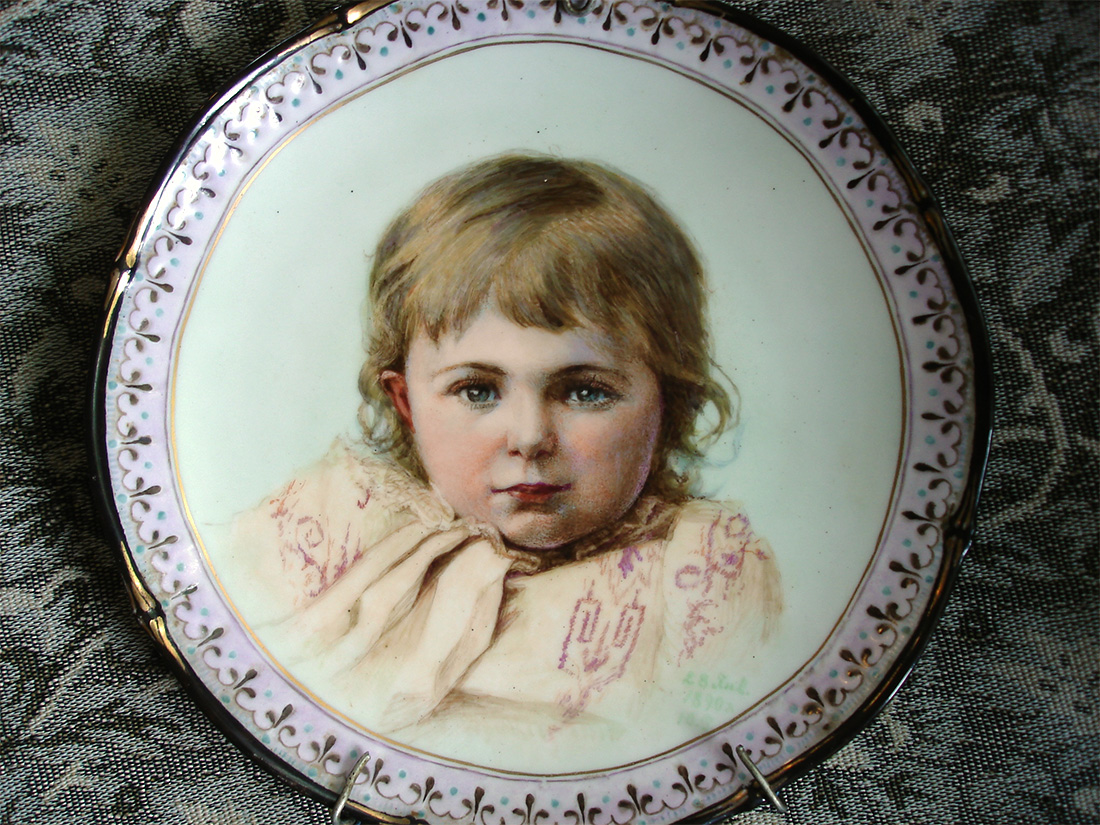 Decorative plate with the image of Victoria in 5 years painted by Julia_Phominichna (nee Okulich-Kazarina, mother of Victoria and grandmother of Zoya Rozhdestvenskaya).